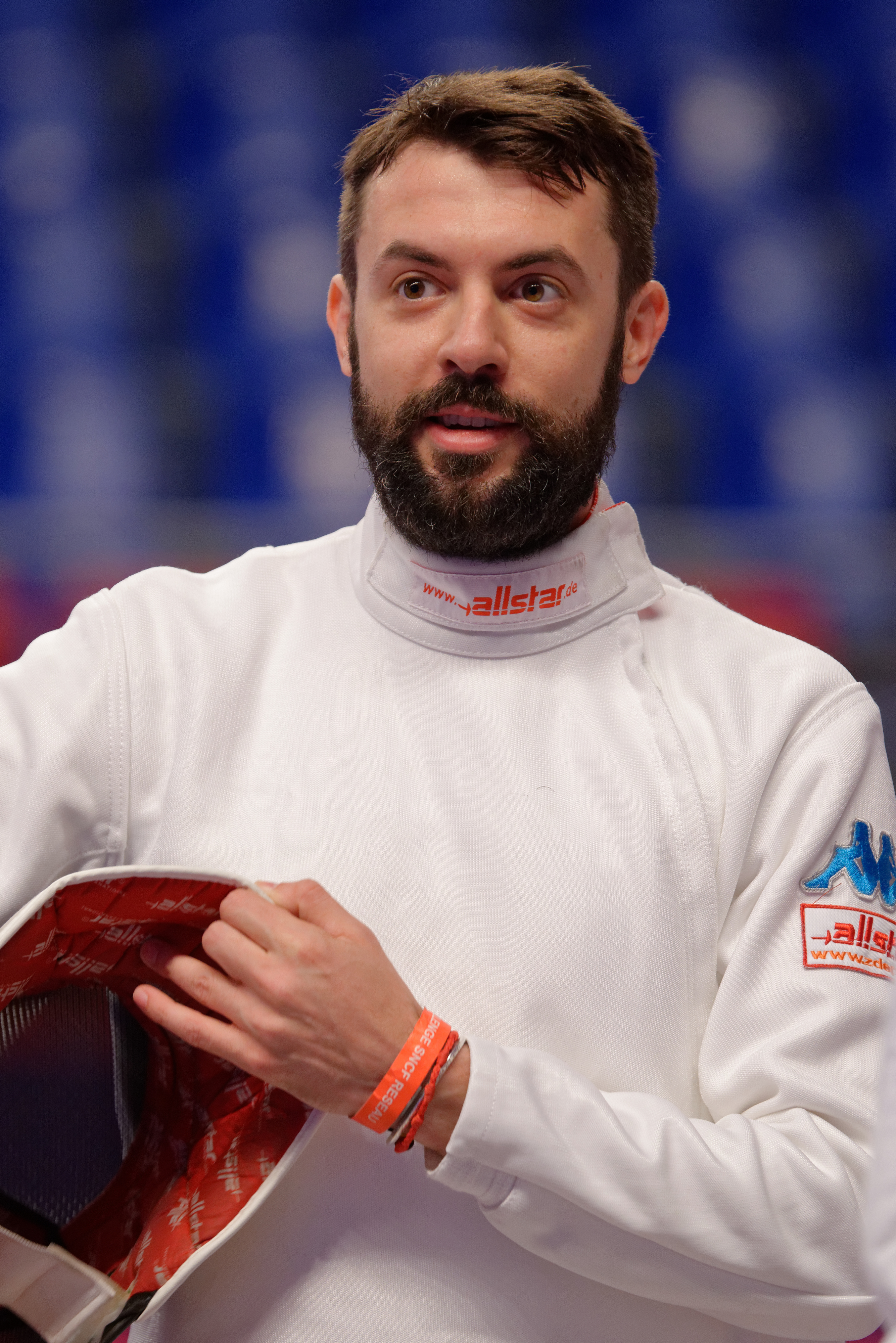 Italy's Matteo Tagliariol at the Challenge SNCF Réseau-Trophée Monal 2015, a stage of the men's épée World Cup.